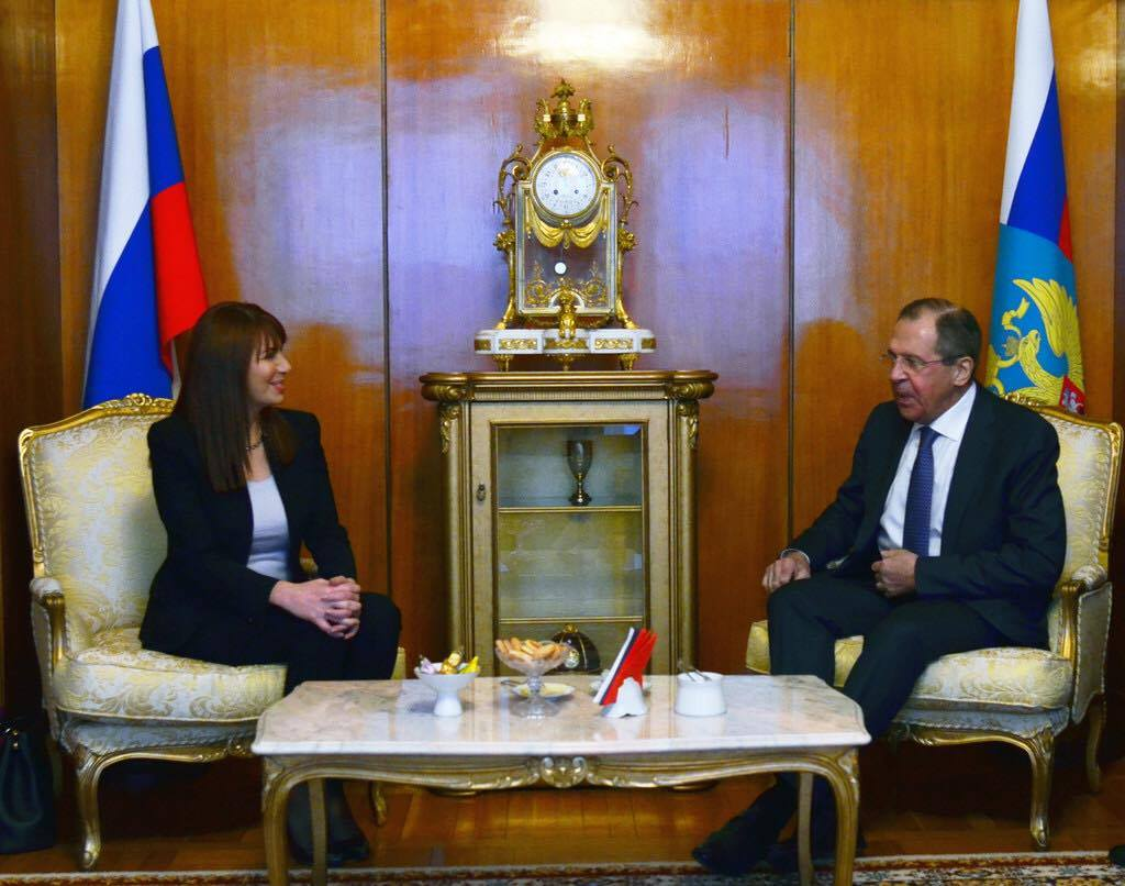 Russian Foreign Minister Sergey Lavrov met with Randa Kassis, President of Astana platform, Moscow, March 10, 2016